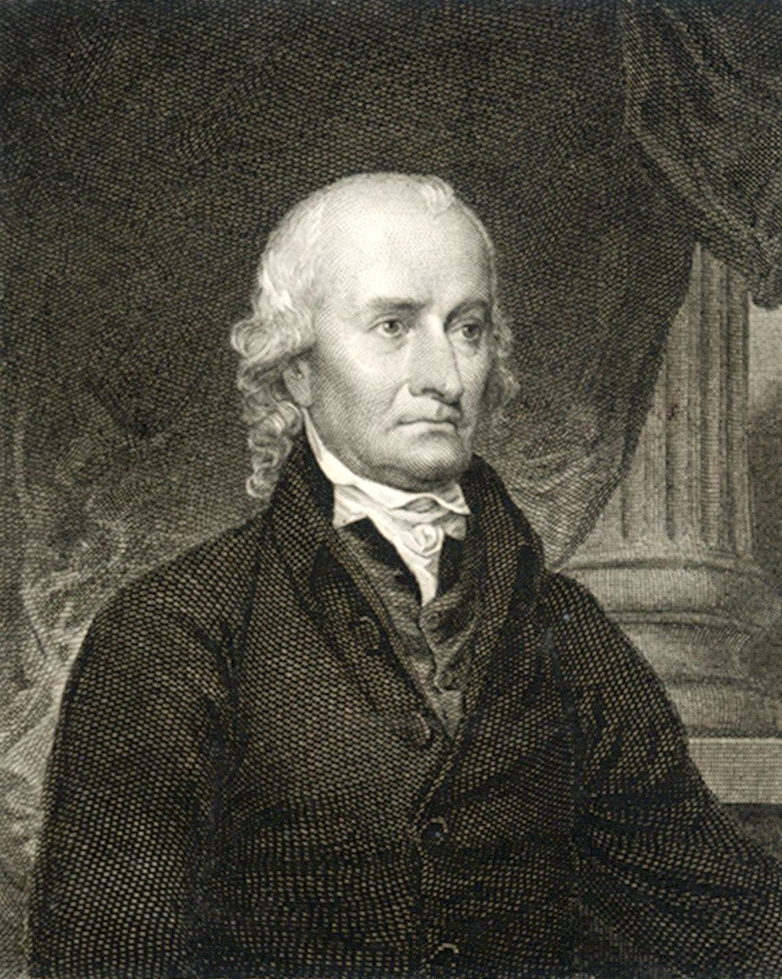 from